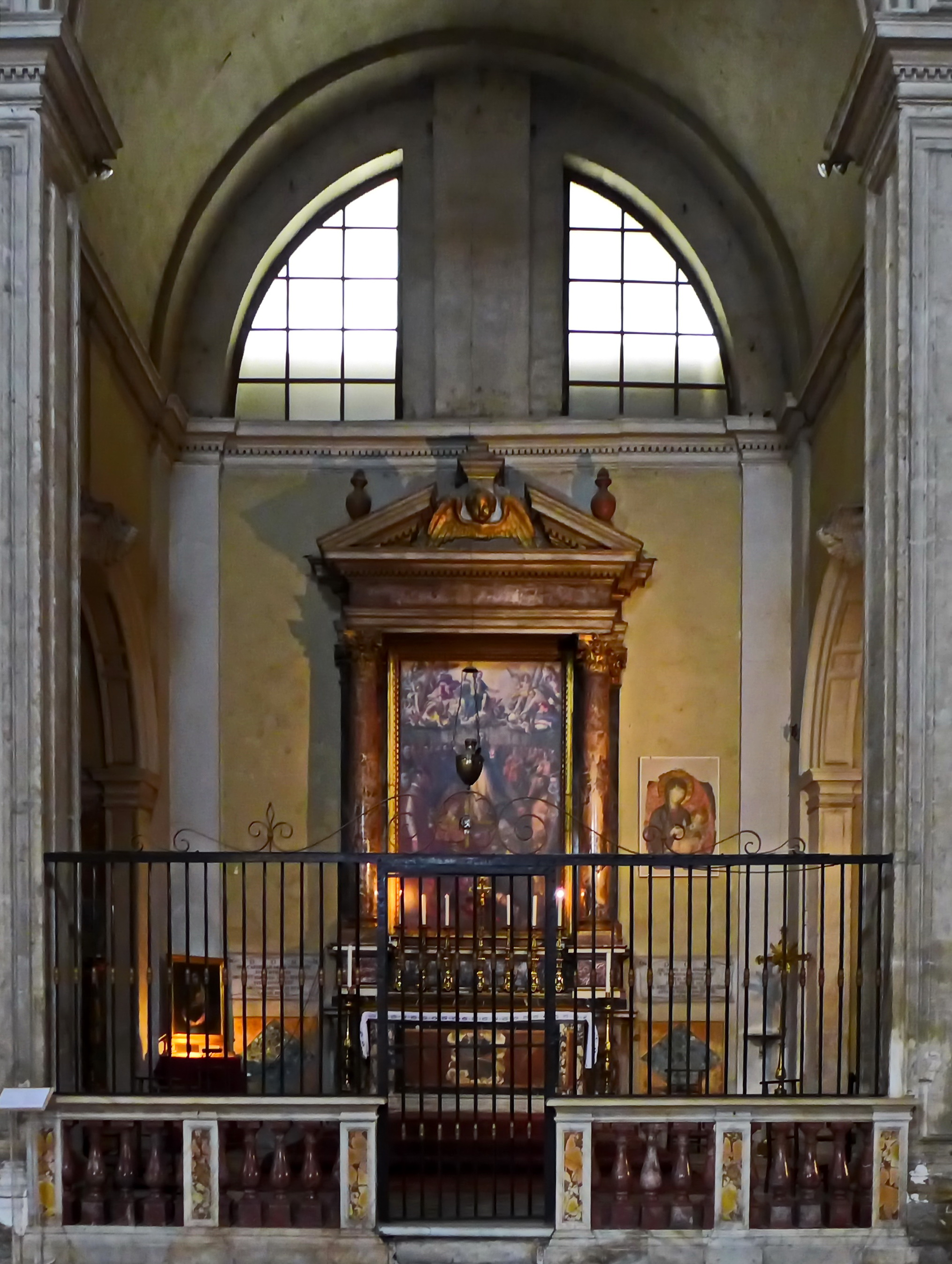 Santa Maria sopra Minerva (Rome), Cappella Giustiniani